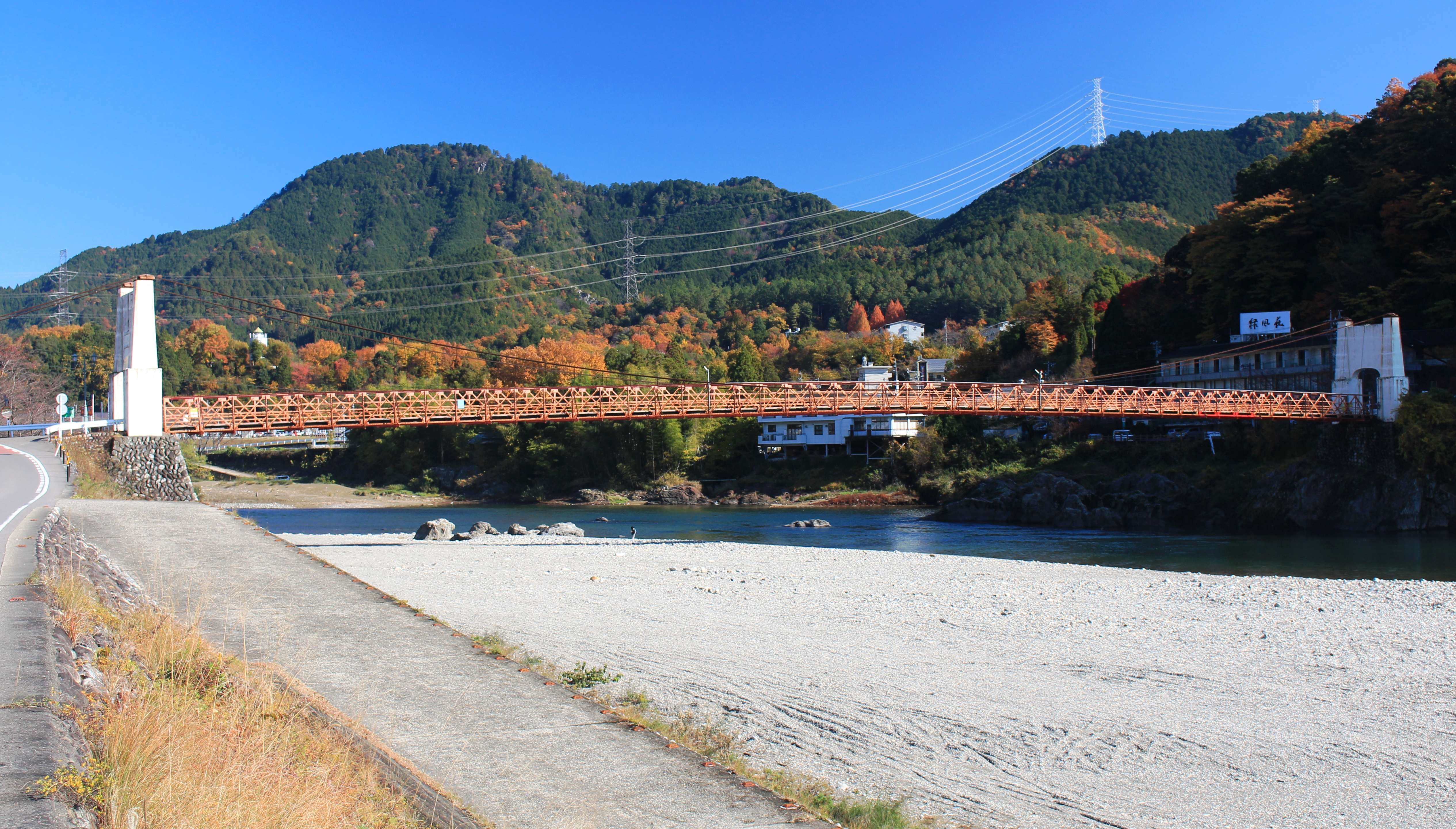 Mino Bridge over Nagara River in Mino, Gifu prefecture, Japan.